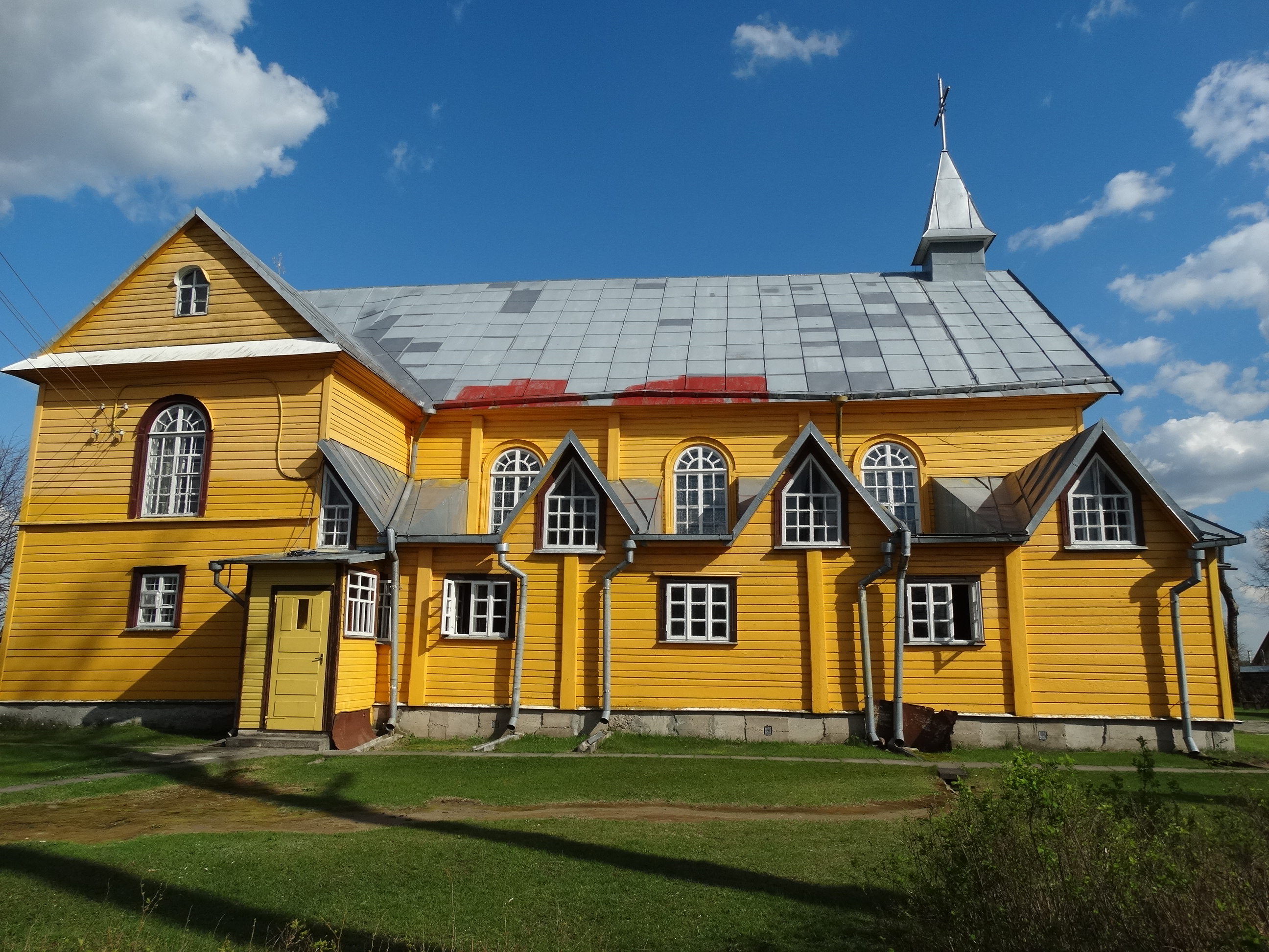 Blessed Virgin Mary of the Rosary Church, Dieveniškės, Šalčininkai District, Lithuania